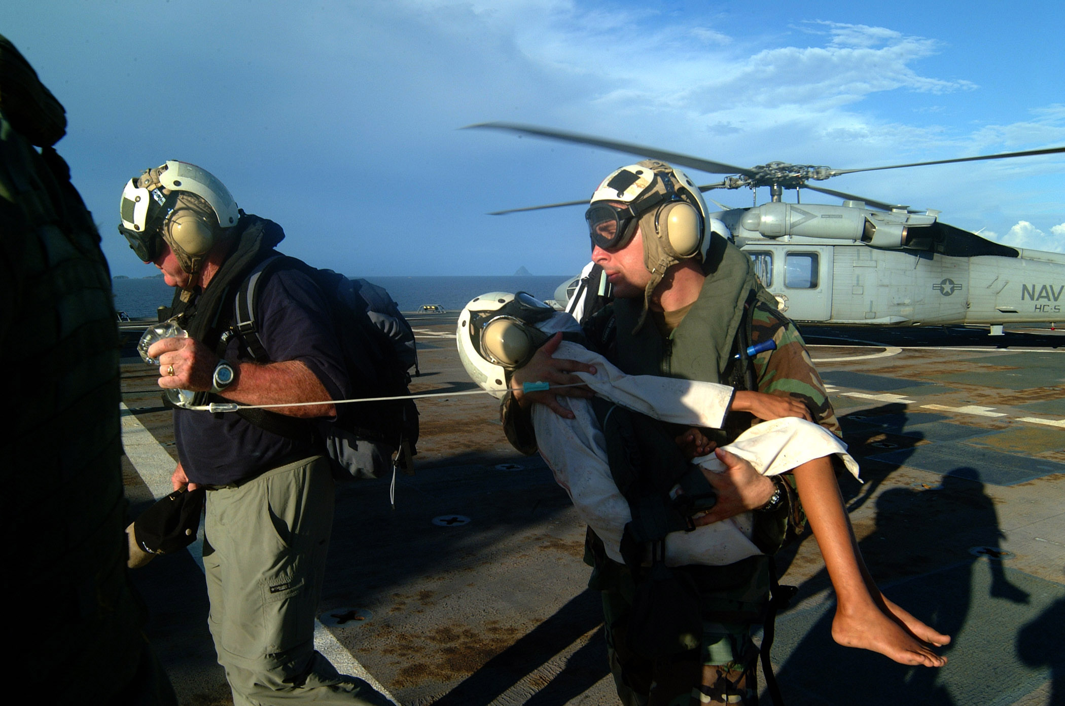 Peduli, Nias, Indonesia (Apr. 7, 2005) – Retired Rear Adm. William McDaniel, left, leads Chief Hospital Corpsman Patrick Nardulli as he carries an Indonesian child from an MH-60S Seahawk helicopter to be medically treated aboard the Military Sealift Command (MSC) hospital ship USNS Mercy (T-AH 19). At the request of the government of Indonesia, Mercy and the MSC combat stores ship USNS Niagara Falls (T-AFS 3) are on station off the coast of Nias, providing assistance as determined appropriate and necessary with earthquake disaster relief efforts and provide medical assistance to those in need. U.S. Navy photo by Journalist 3rd Class Isaac Needleman (RELEASED)